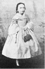 the communard Louise Michel with the age of 9 years.